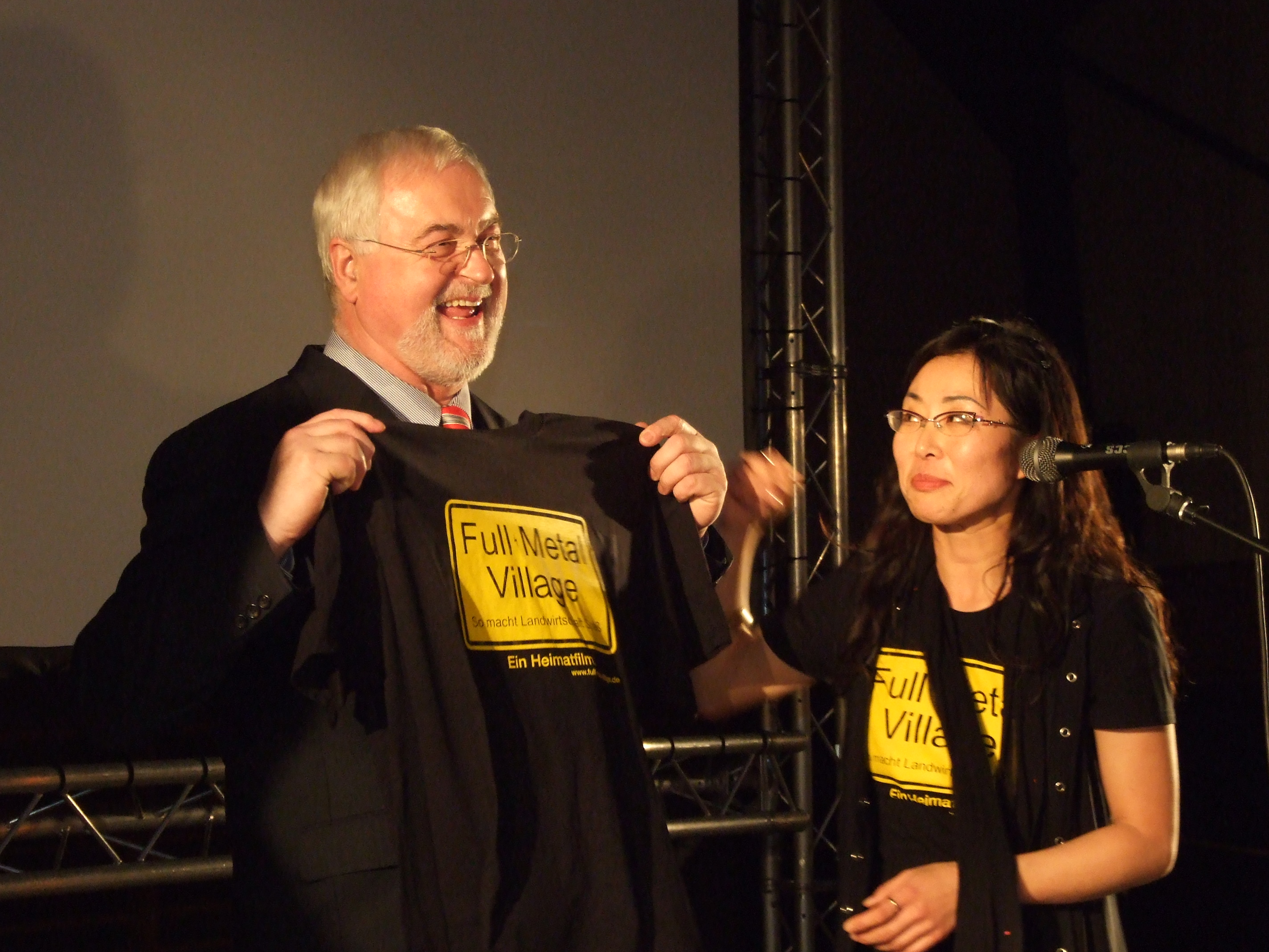 Sung-Hyung Cho, director of the film documentary "Full Metal Village" on the "Wacken open air festival", presents the film promotion T-shirt to Peter Harry Carstensen, prime minister of the German land Schleswig-Holstein (on the pre-premiere of the film in Wacken)